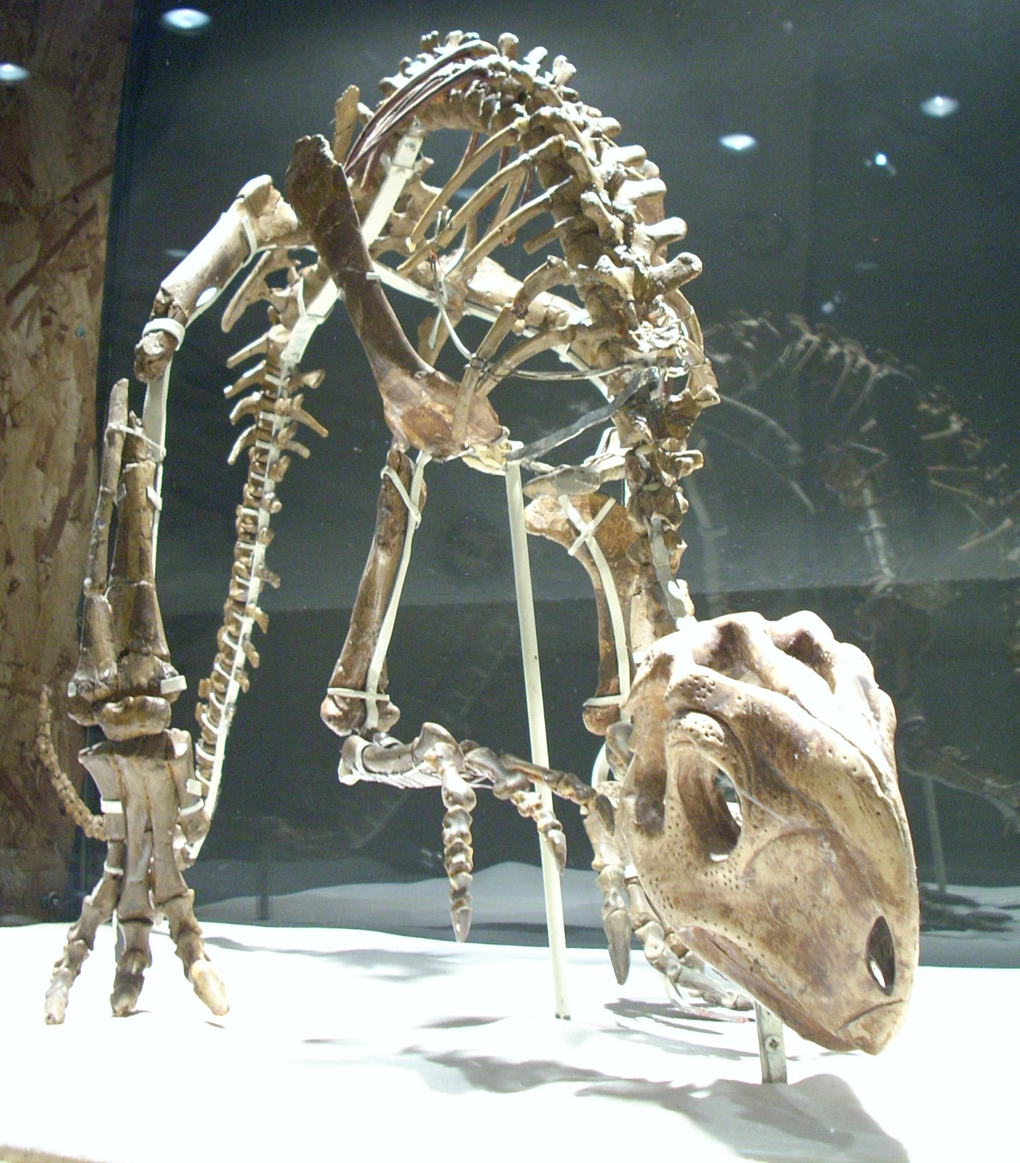 Psittacosaurus fossil